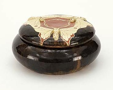 Butterfly jar made by Swedish potter Hilma Persson-Hjelm, in 1910.